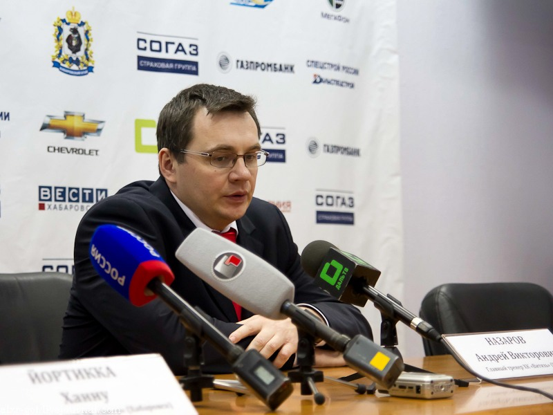 Vitiaz Chekhov head coach Andrei Nazarov after the KHL-game against Amur Khabarovsk on October 14, 2011 (Vitiaz lost 2-5).